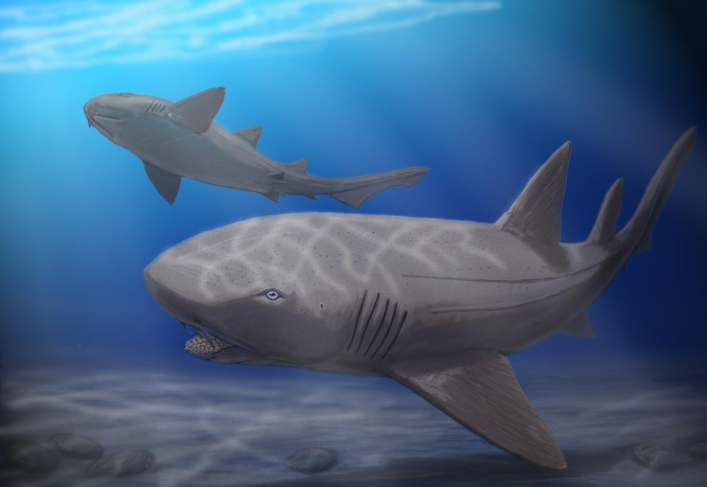 Ptychodus mortoni - giant (7 m long)durofagous shark from Late Cretaceous of North America